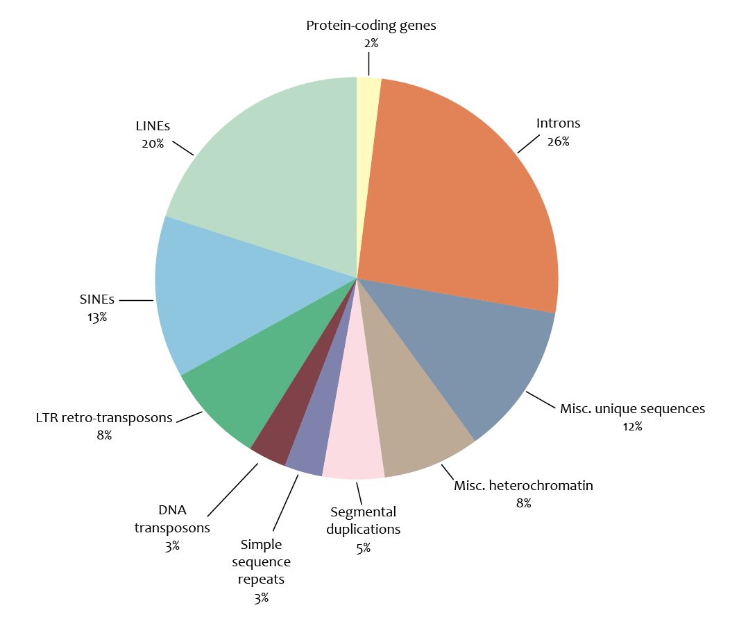 Diagram of components of the genome as estimated in 2014.